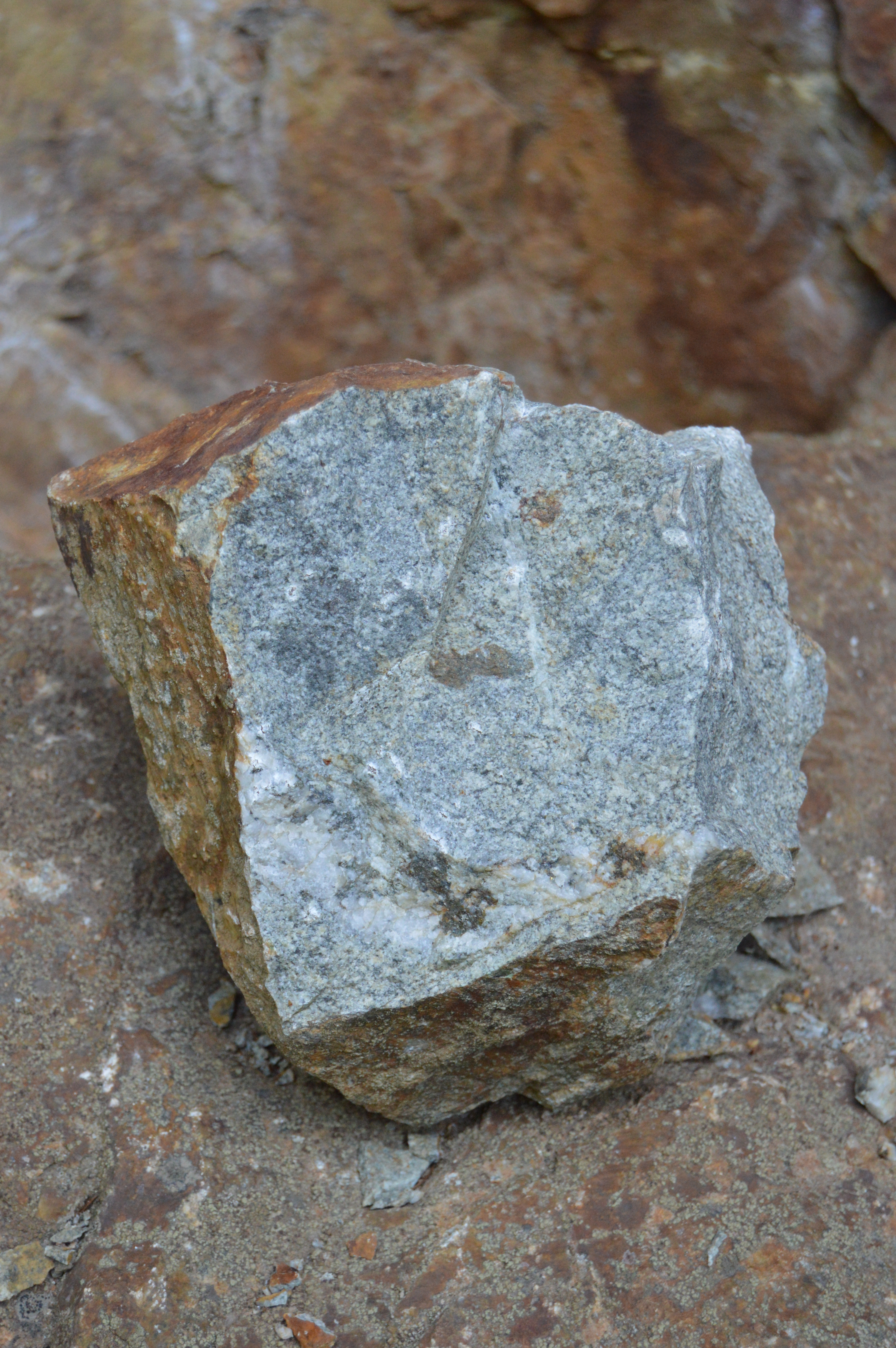 Tonalite in Hell River valley in High Fens, between Nederlands (1815-1830) then Belgium (1830-1918), and Prussia (1815-1870) then Germany (1870-1918)